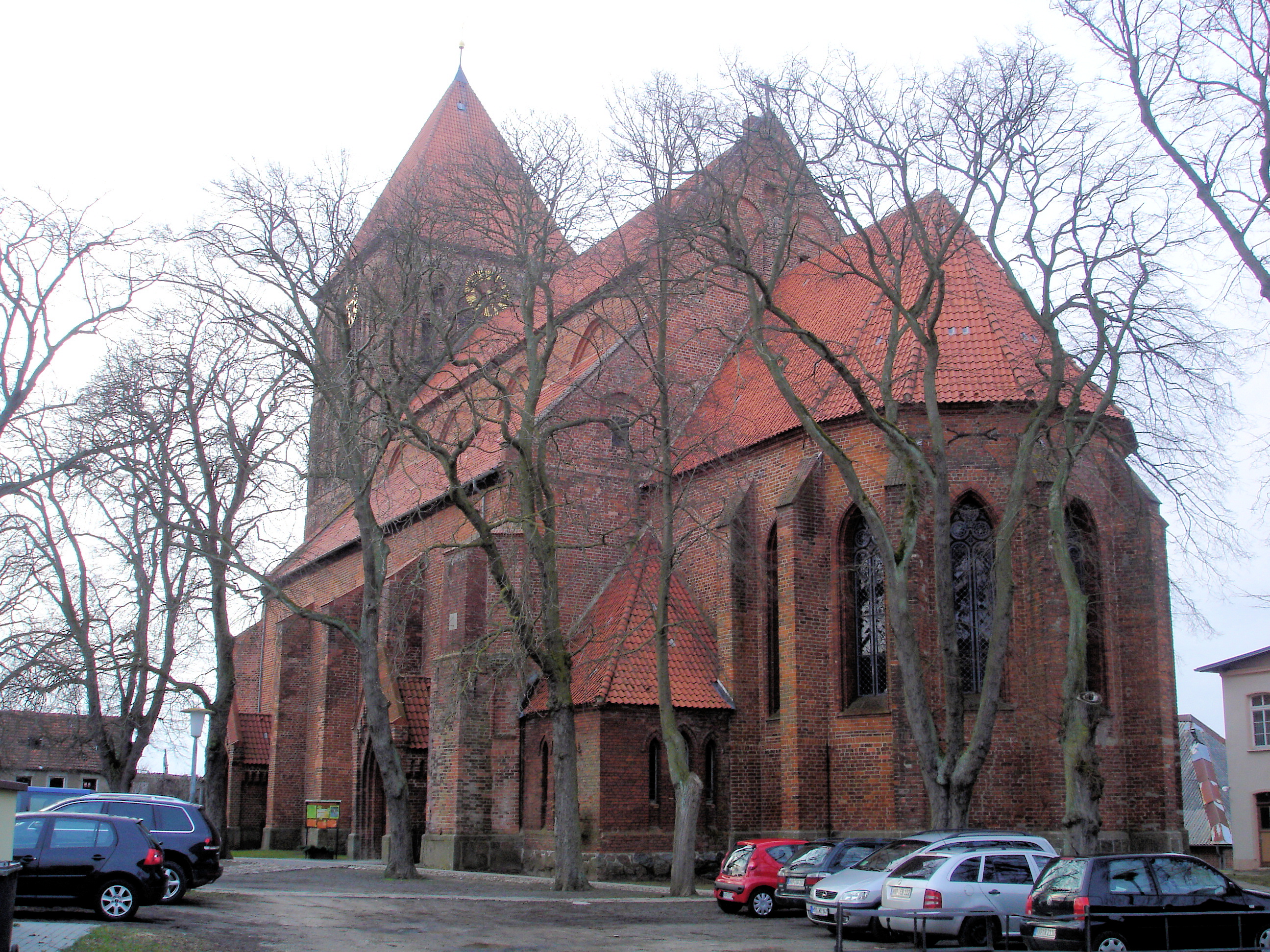 Church in Tribsees, Mecklenburg-Vorpommern, Germany